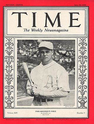 Baseball player Jimmie Foxx on Time mag cover, July 29, 1929